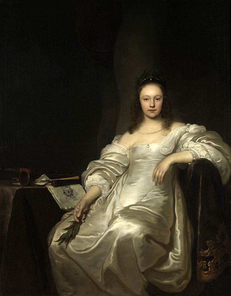 Portrait of a Lady as the Muse Euterpe